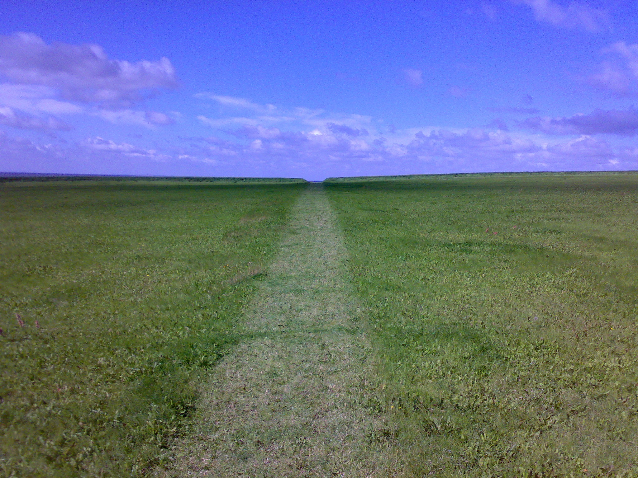 Aggersborg fortress, Denmark. View from the inside of the fortress ramparts.